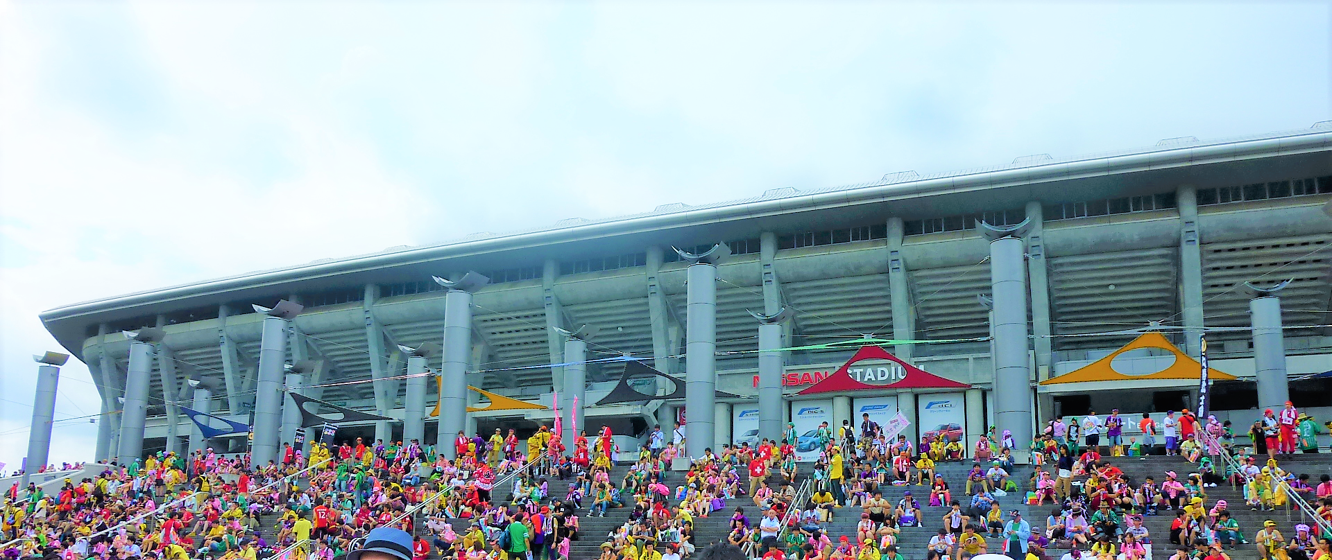 Raving fans of Momoiro Clover Z